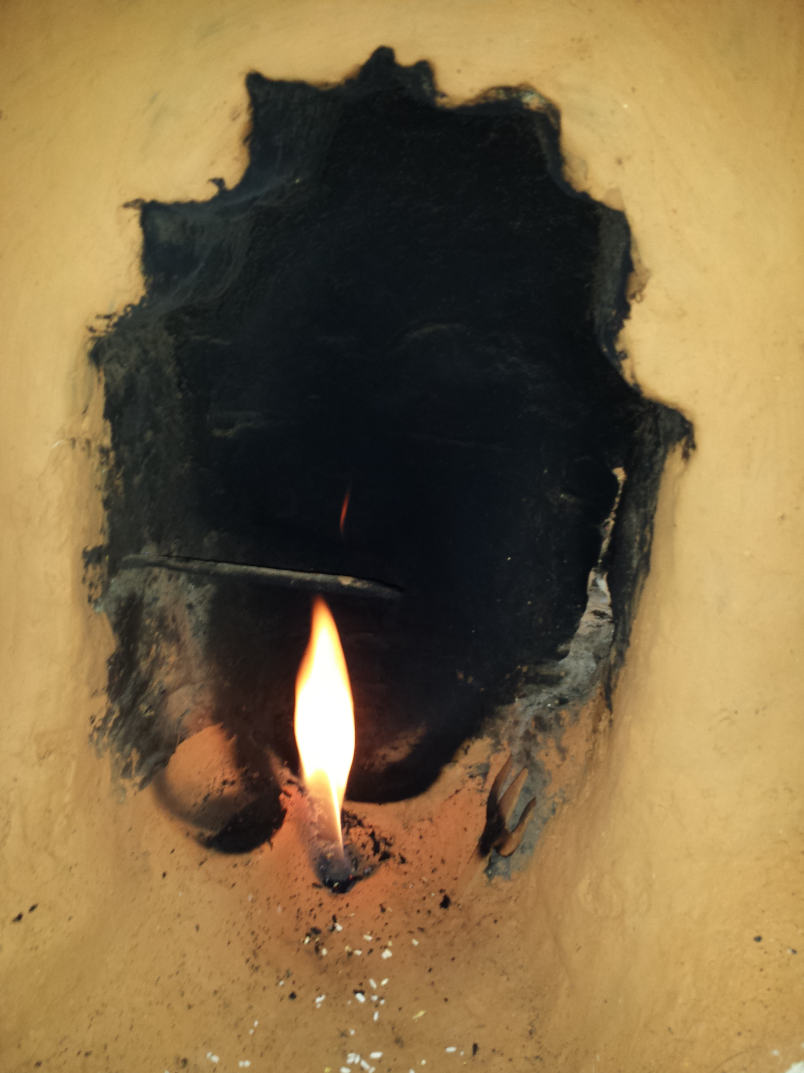 Shirsthan (Jwaladevi) Math